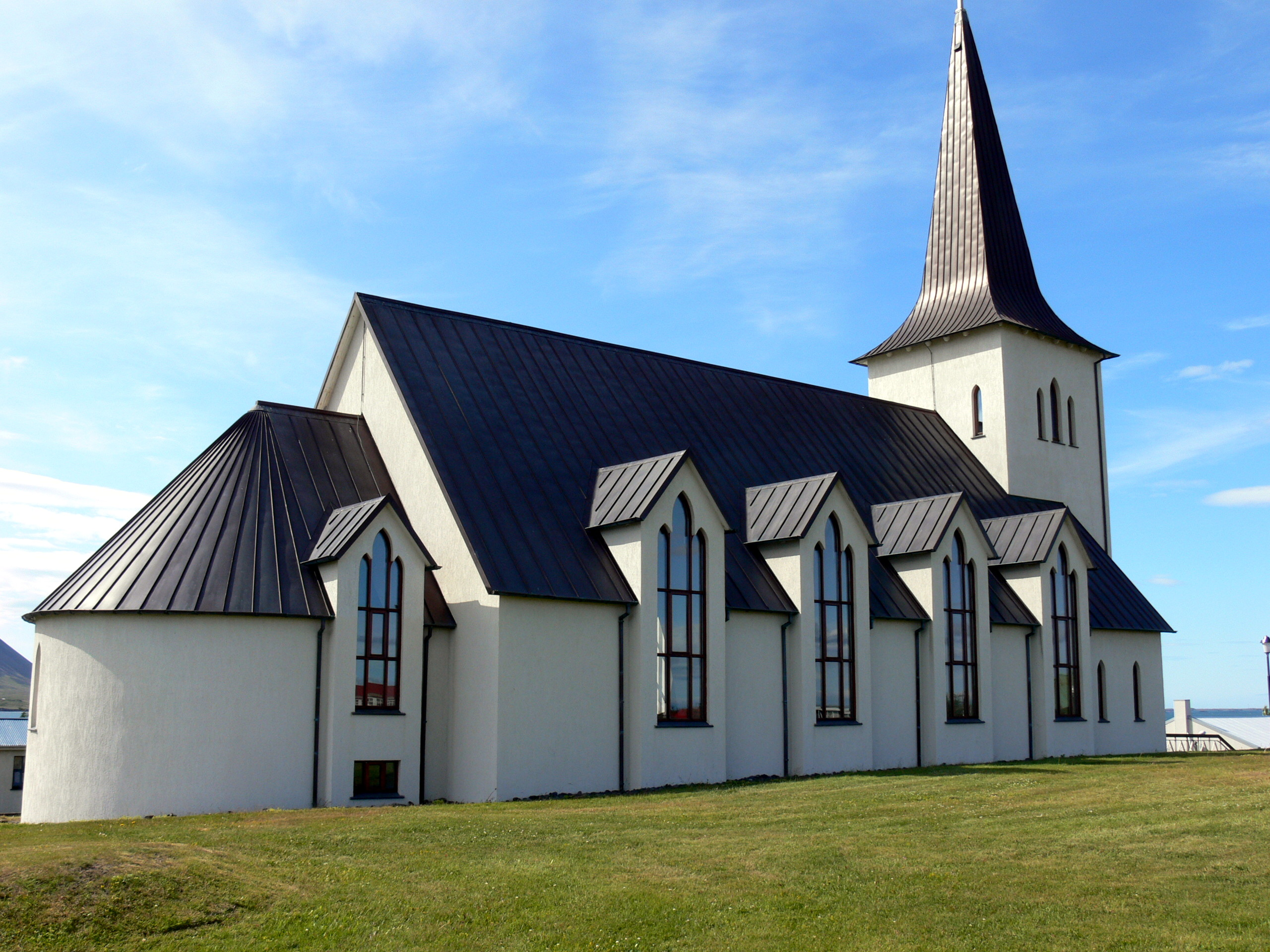 Borgarnes. City church.